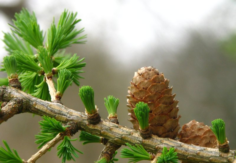 Larix × marschlinsii (Dunkeld Larch). Young leaves, and mature seed cone from previous year. Taken at Kew Gardens, (London, UK)